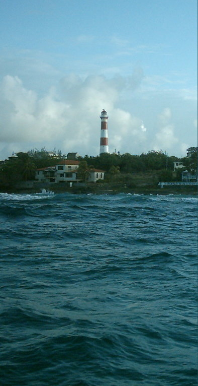 Southpoint Lighthouse from southern end of Cobblers Reef.